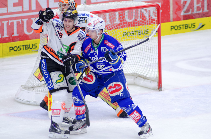 25.10.2013, Stadthalle Villach, AUT, EBEL, 28. Runde, EC VSV vs. Graz 99ers, im Bild Marco Pewal, (EC VSV, #36),Patrick Coulombe, (99ers #28), // frostworx Pictures © 2013, PhotoCredit: frostworx / Alex Micheu